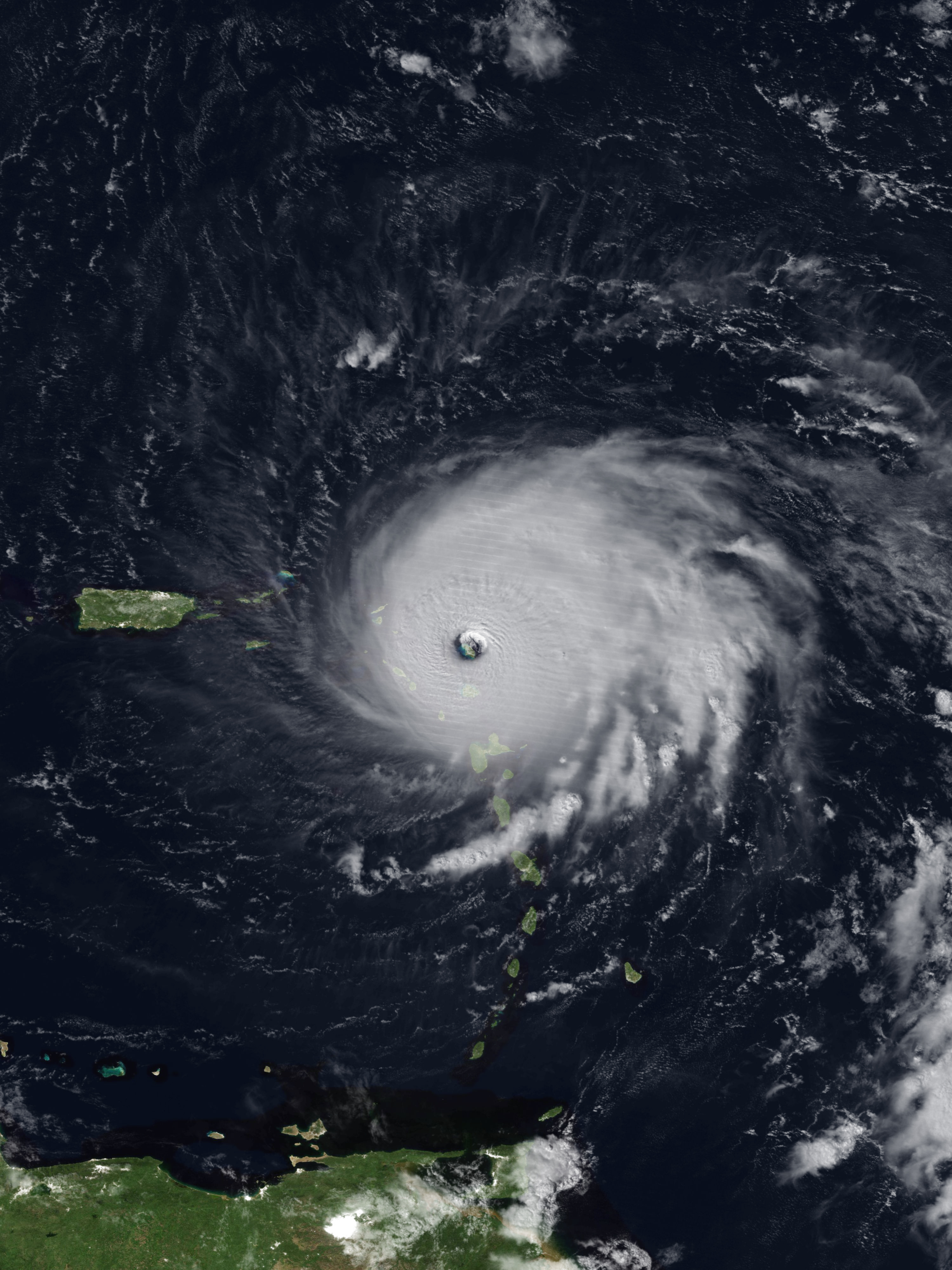 Hurricane Irma making landfall on Barbuda at peak intensity on September 6, 2017 as a category 5 major hurricane.